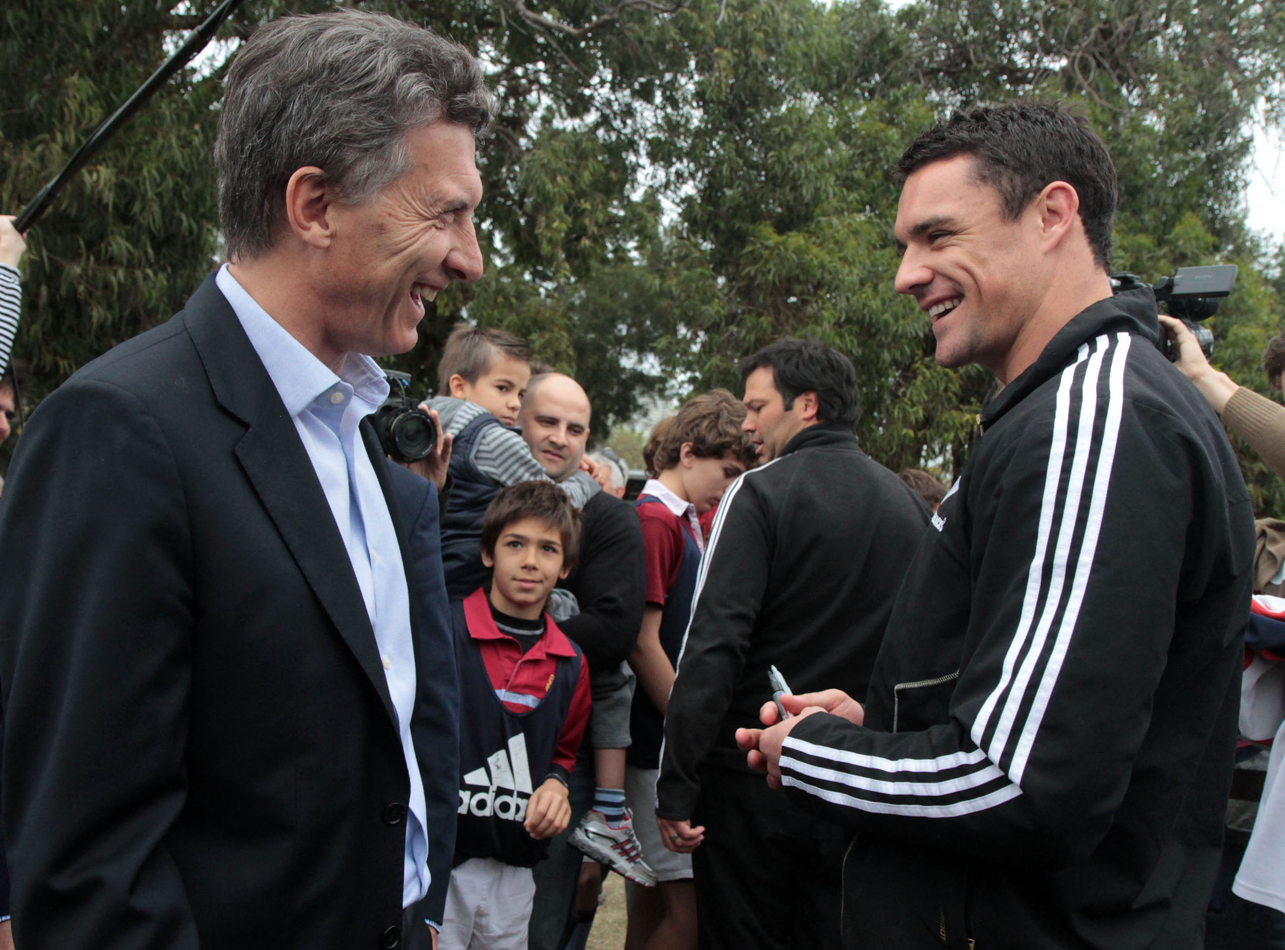 Dan Carter and Mauricio Macri at a welcome for the New Zealand national rugby union team - the All Blacks - in Buenos Aires.